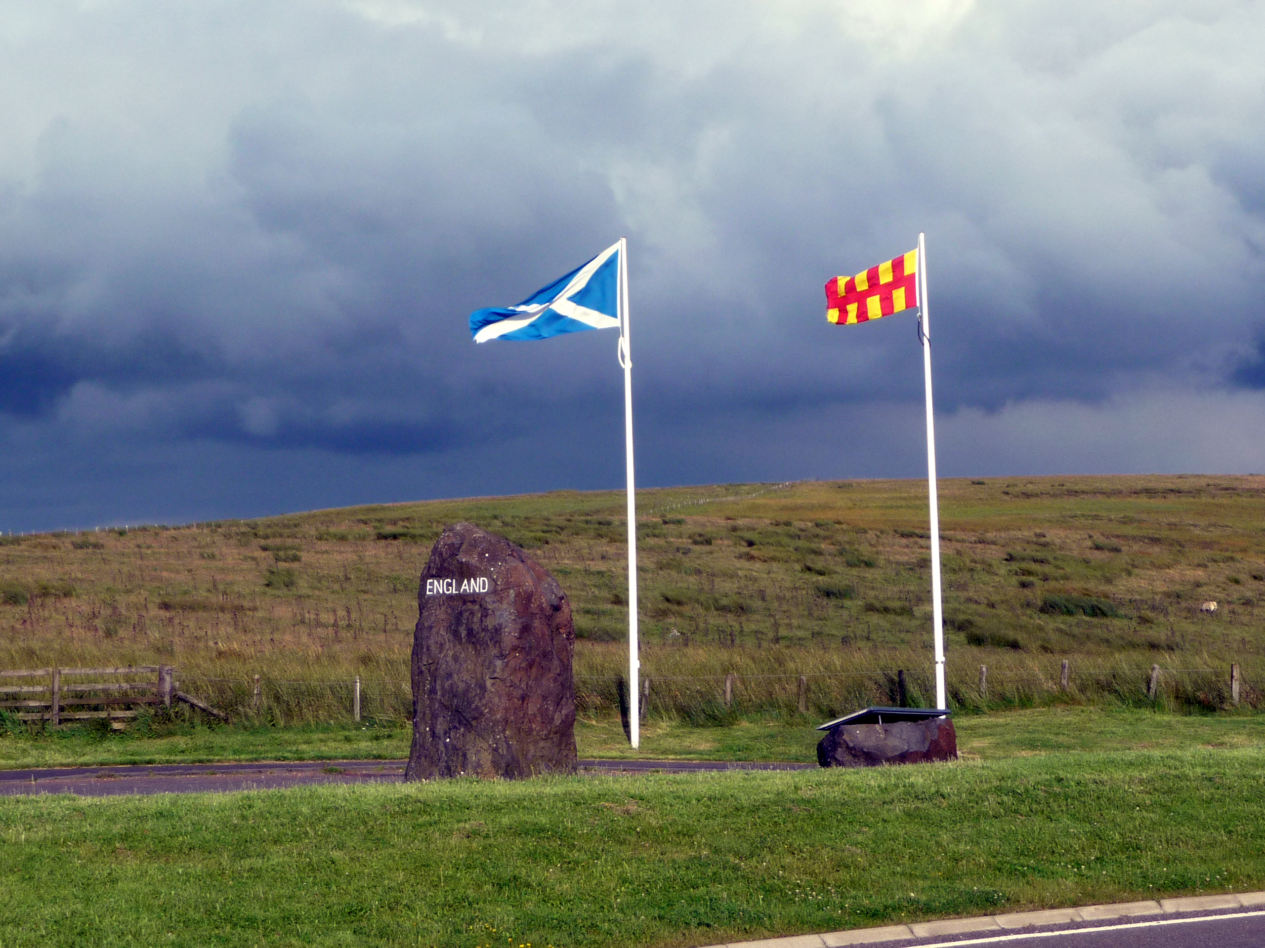 Scottish-English border